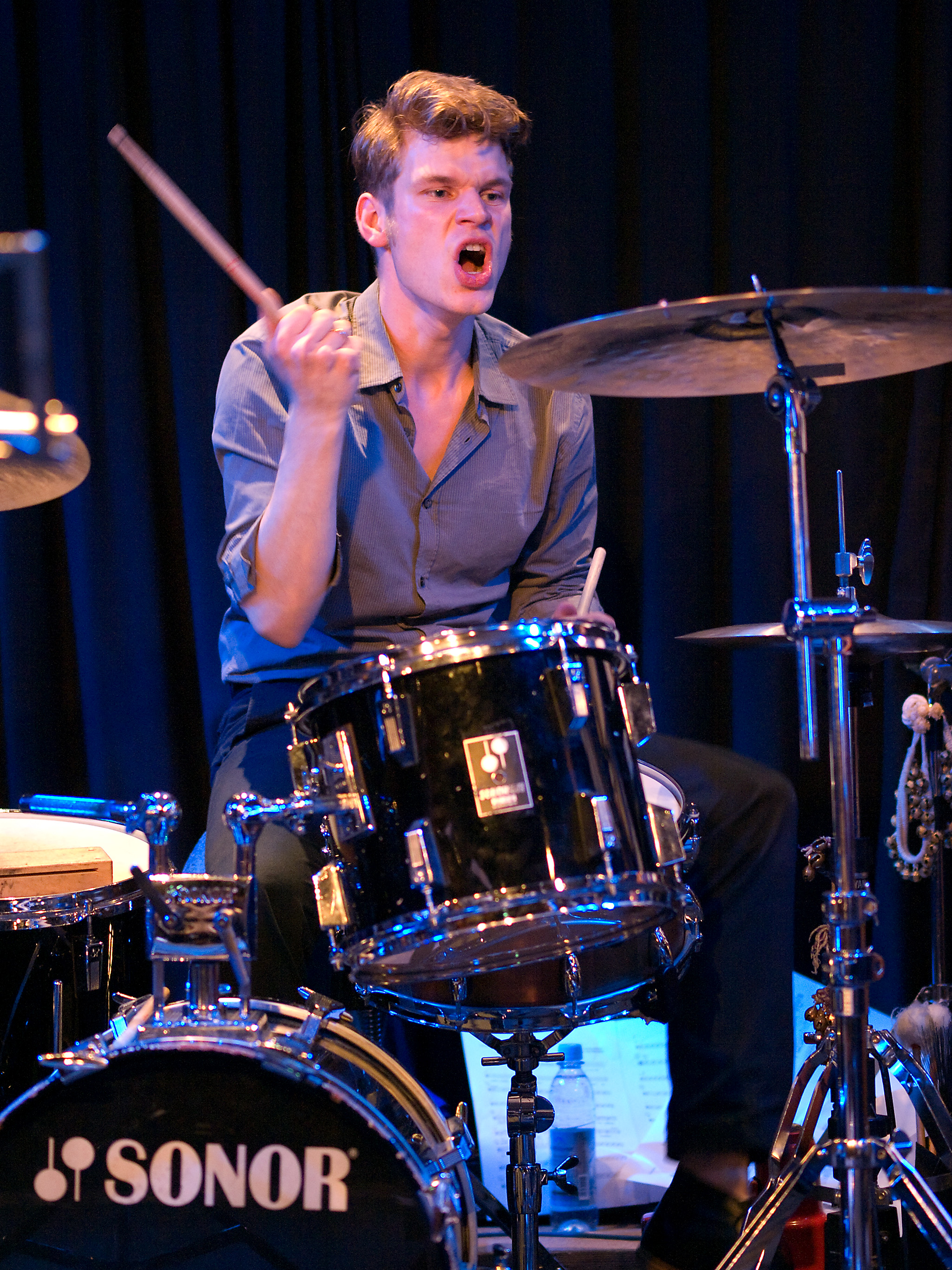 Christian Lillinger, Jazz drummer; Picture taken in Jazz Club Unterfahrt, Munich/Bavaria